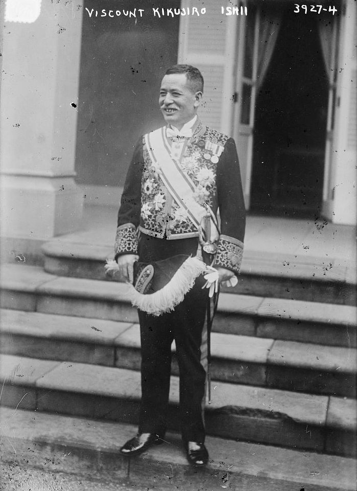 Viscount Kikujirō Ishii